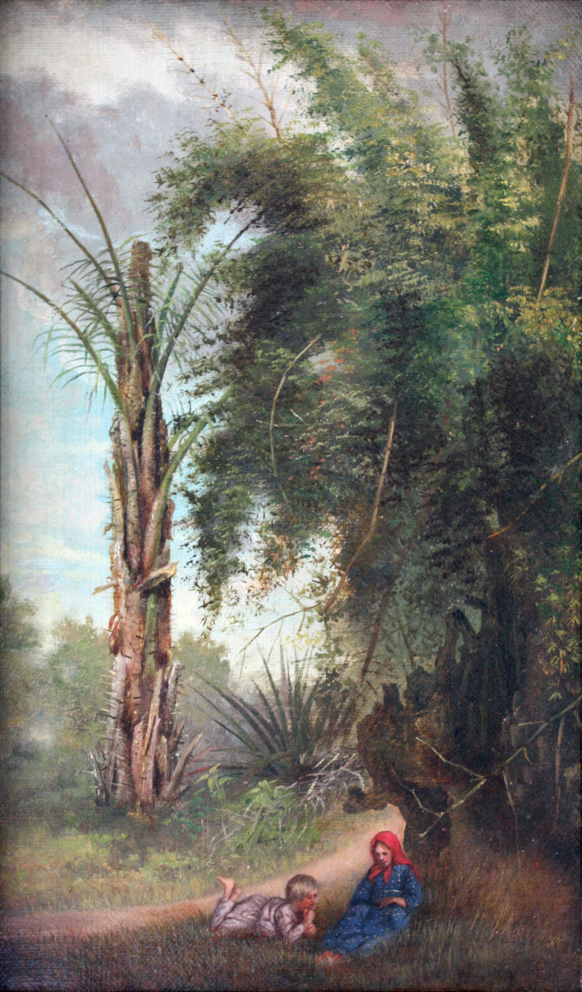 "Home of the Bamboo" by Walter Goodman, oil on board, Private Collection, [Sweden .